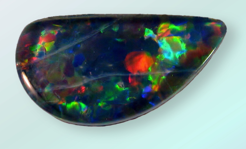 Black Precious-Opal